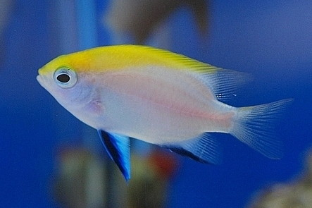 Black damselfish Neoglyphidodon melas (Cuvier in Cuvier and Valenciennes, 1830)